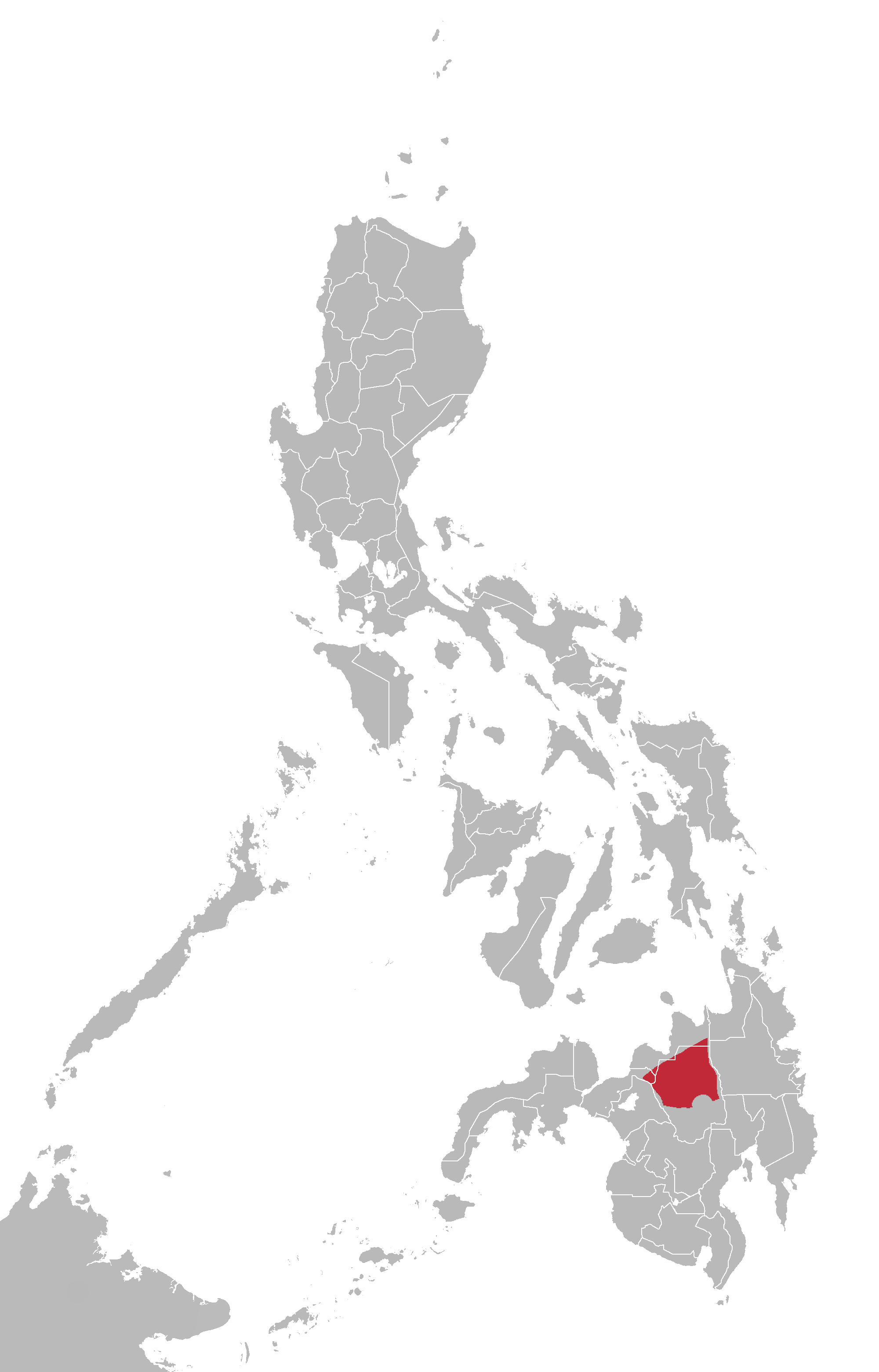 Binukid language map based on Ethnologue maps